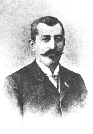 Nikolaos Vlagkalis (19th c.-20th c.): Manager of the Greek Electric Railways